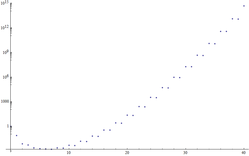 Error team of Euler–Maclaurin formula during the computation of harmonic series